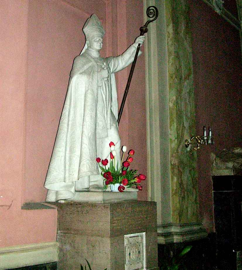 Monument of st. Józef Bilczewski in Latin Cathedral in Lviv.